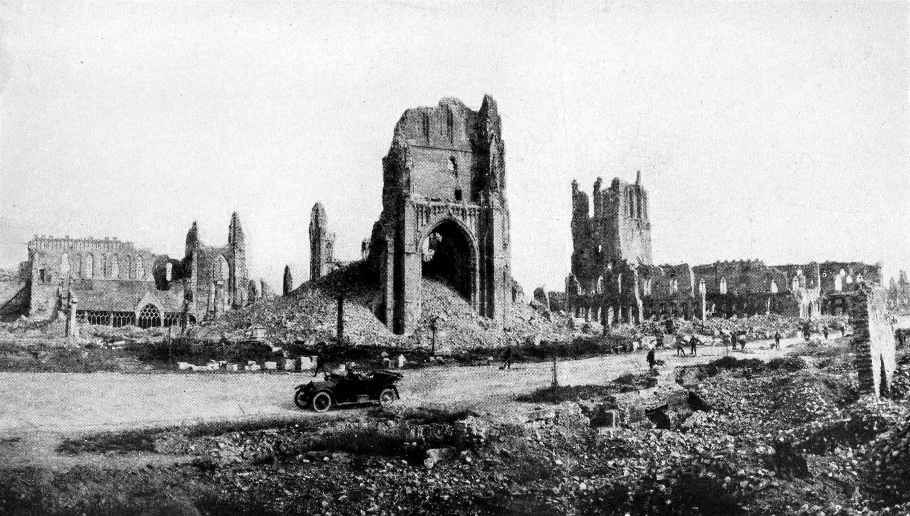 Ypres at the close of World War I. In the center is the cathedral tower. At the right, the Cloth Hall.